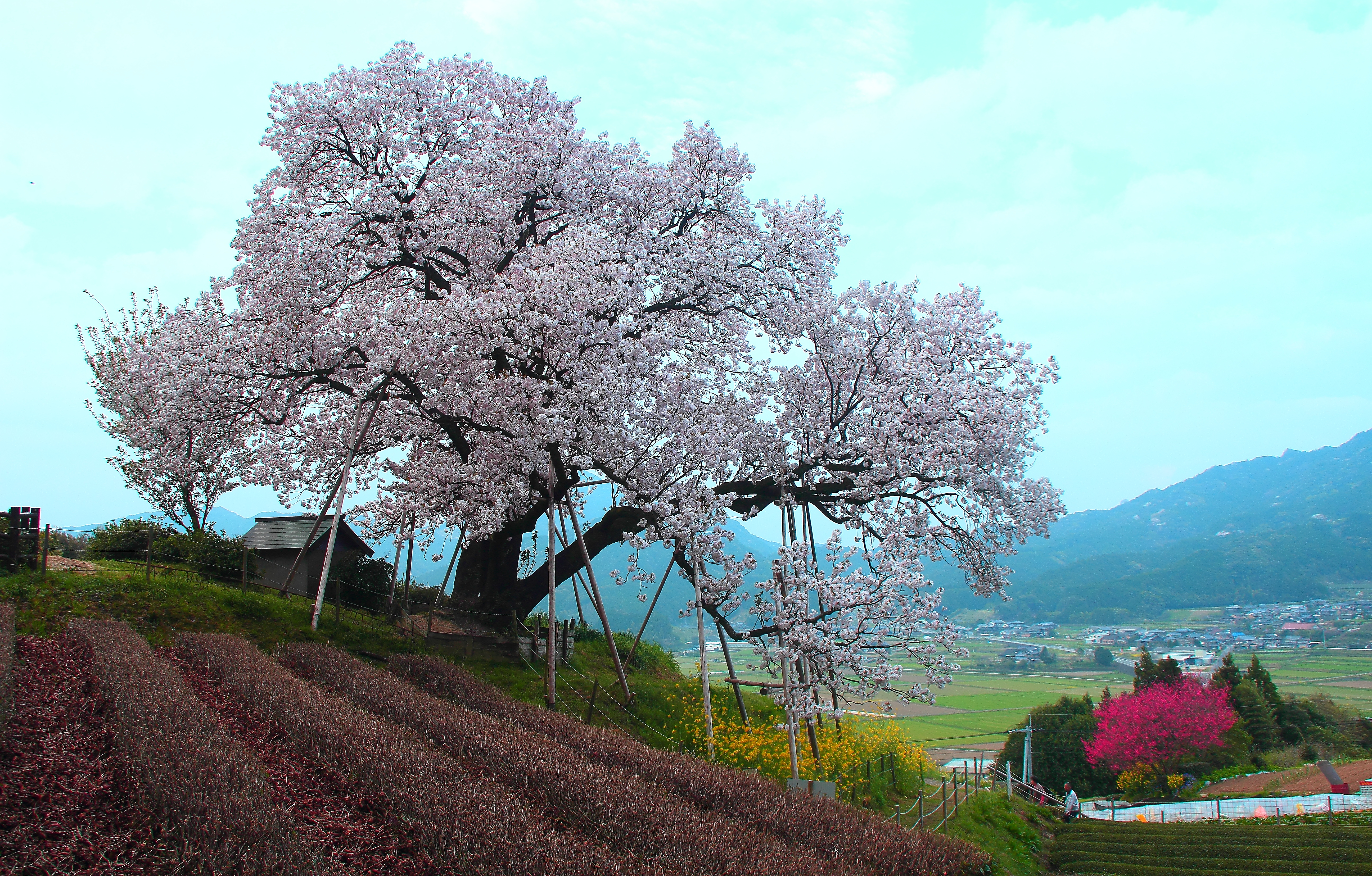 Yoshida-no-Hyakunenzakura tree in Ureshino, Saga Prefecture, Japan. Canon EOS 60D